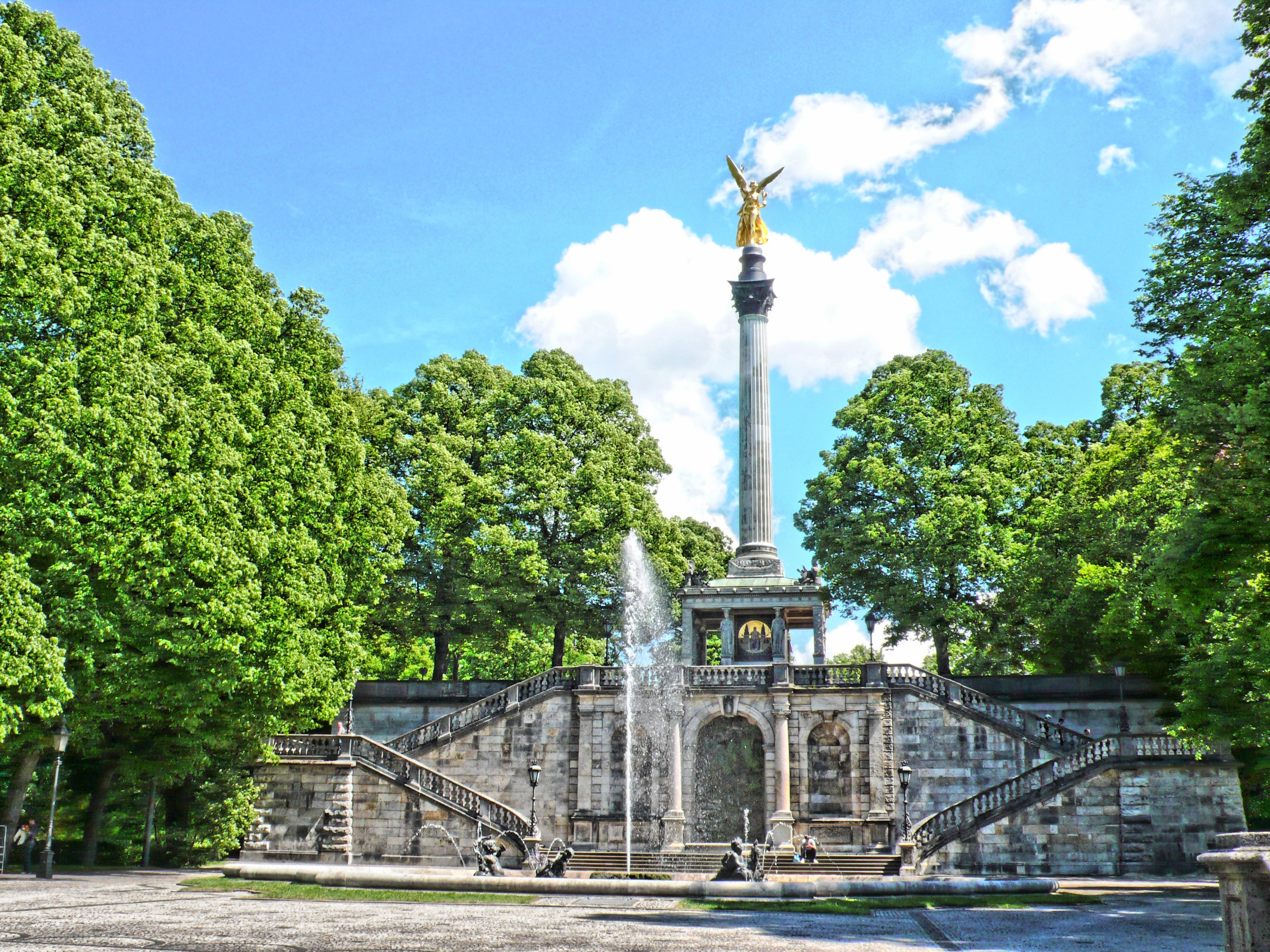 Friedensengel in Munich